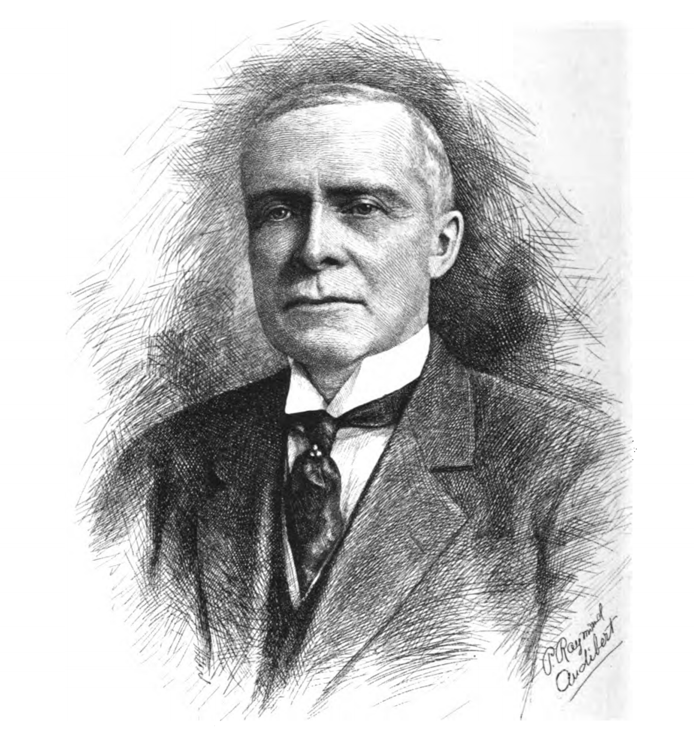 George Greer from The Americana, 1911